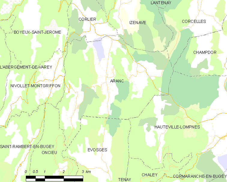 Map of French commune: Aranc Map commune FR insee code 01012.png